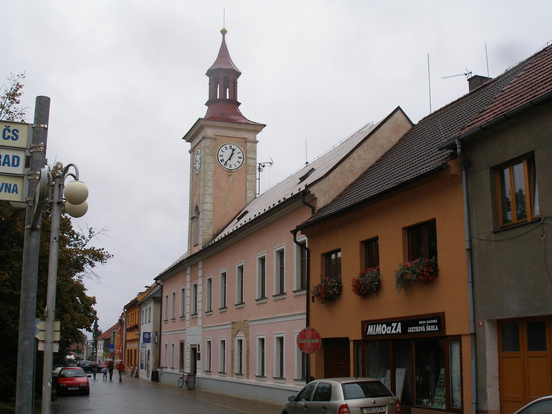 Old Town Hall of Nové Strašecí, Czechia